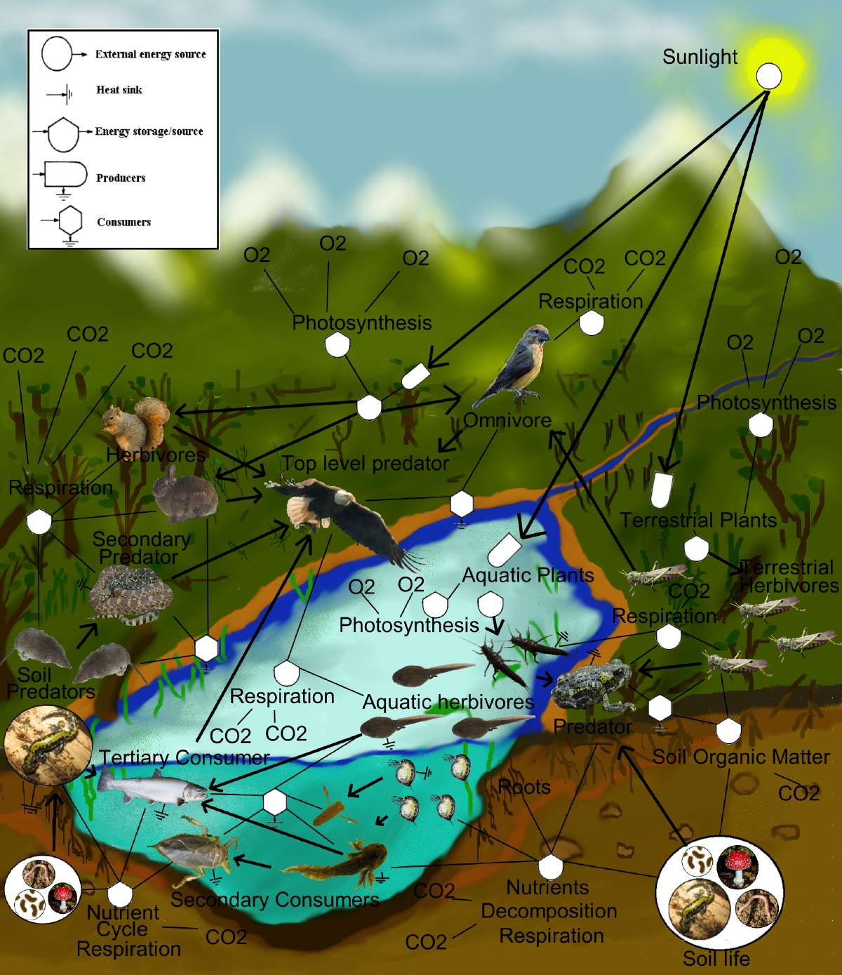 A freshwater aquatic and terrestrial food-web.